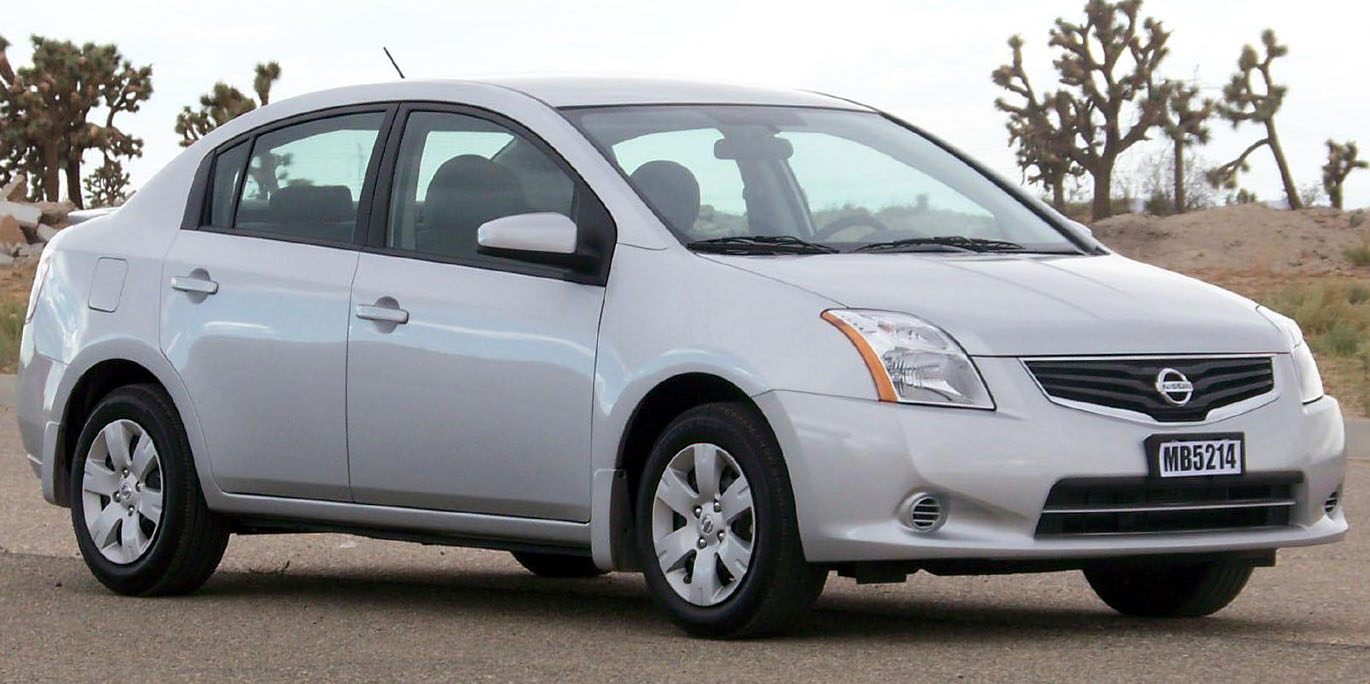 2011 Nissan Sentra 2.0S photographed in USA.